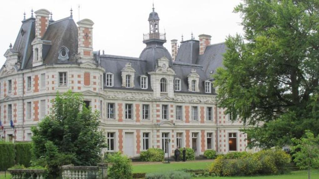 Château d'Armaillé (North East Aspect)